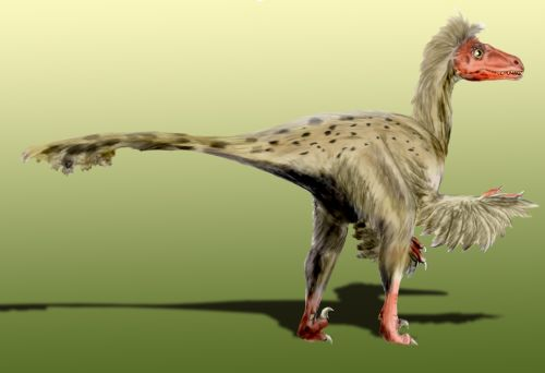 Dromaeosaurus, pencil drawing Author: Nobu Tamura (